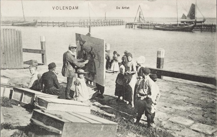 Ivar Kamke in Volendam